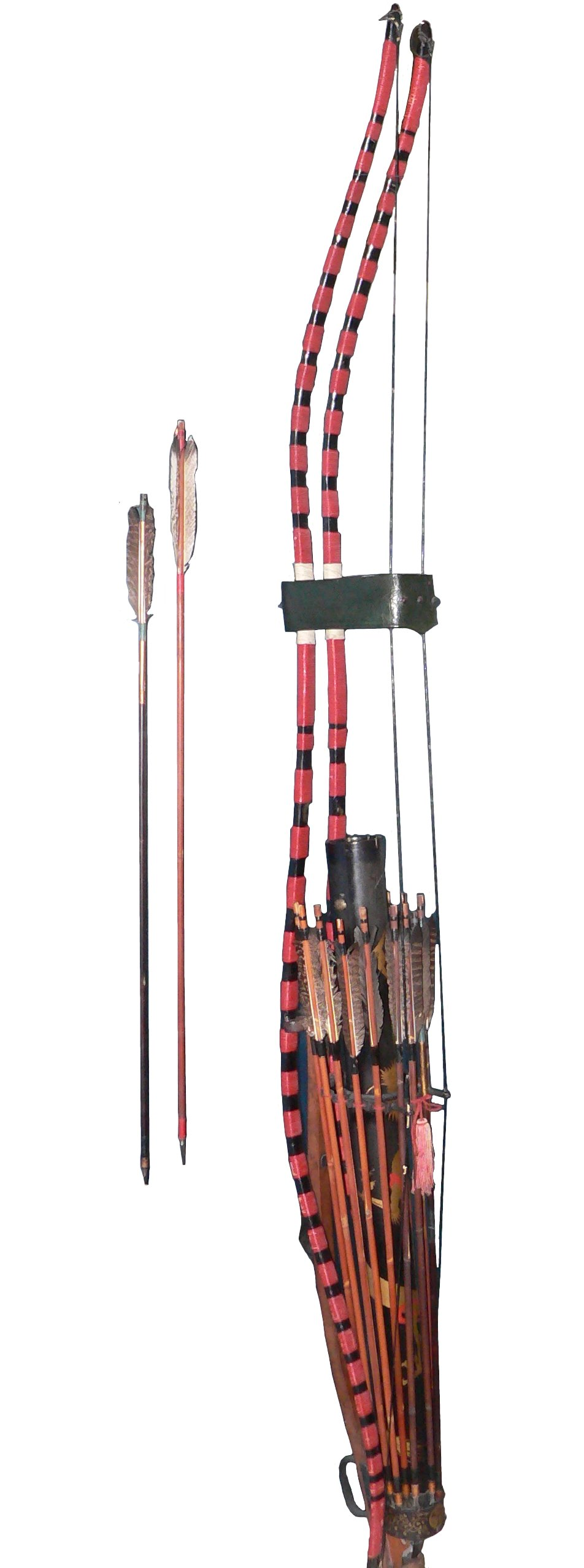 Japanese arrow stand with a pair of Yumi bows.